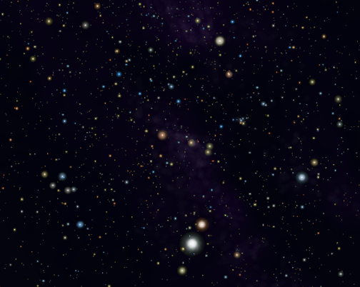 Image of Sagitta